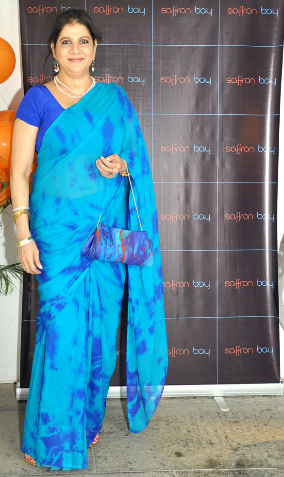 Asha Sachdev at the Launch of Saffron Bay restaurant